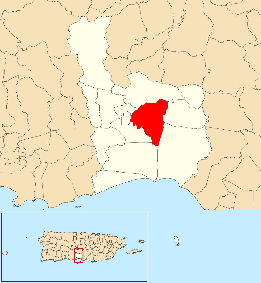 Tijeras, Juana Díaz, Puerto Rico locator map